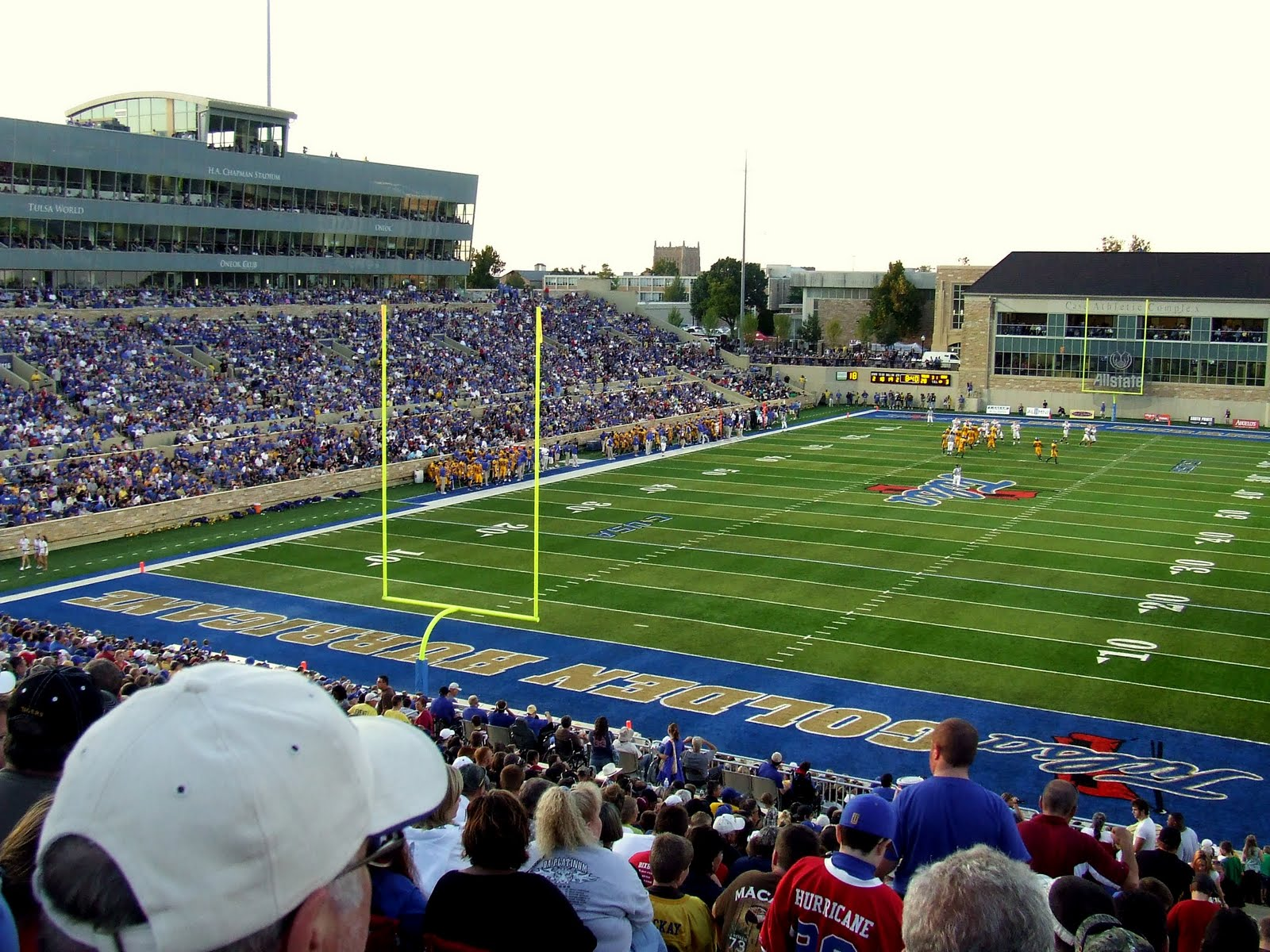 The University of Tulsa Golden Hurricane play the Bearkats of Sam Houston State on Skelly Field at H.A. Chapman Stadium (September 26th, 2009). The Tulsa Golden Hurricane win the game 56-3.